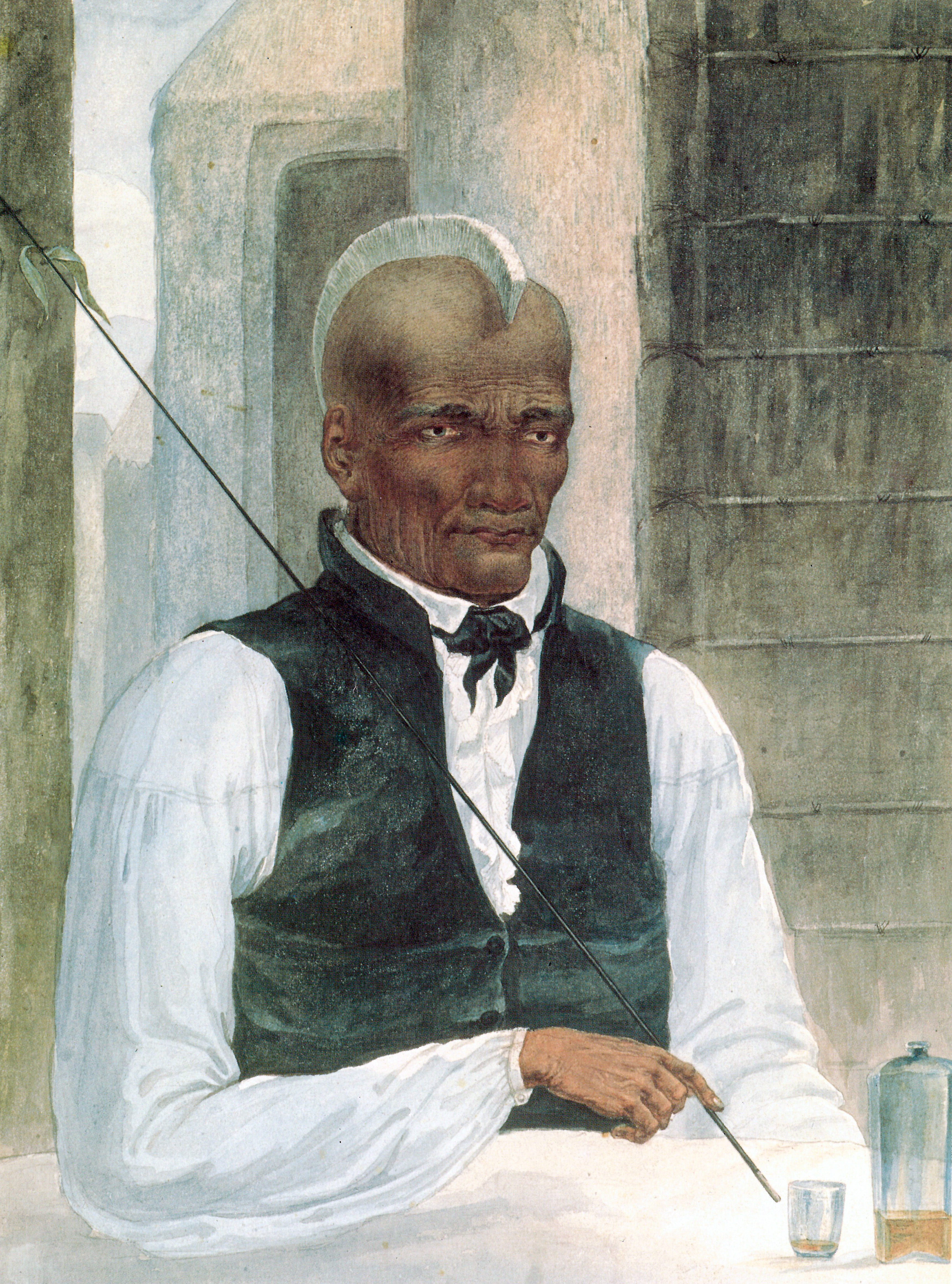 Kamehameha, King of the Sandwich Islanders. Portrait of Kamehameha by Russian artist Mikhail Tikhanov in 1818. The king had shaved his head in mourning for his sister who had died the previous day. In the background is the "royal palace" at Kona.